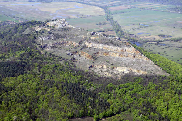 Esztramos-hegy, mountain, Hungary, Aggtelek National Park, aerial photography